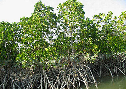 Photograph of the Hara forests on the southern coast of Iran.